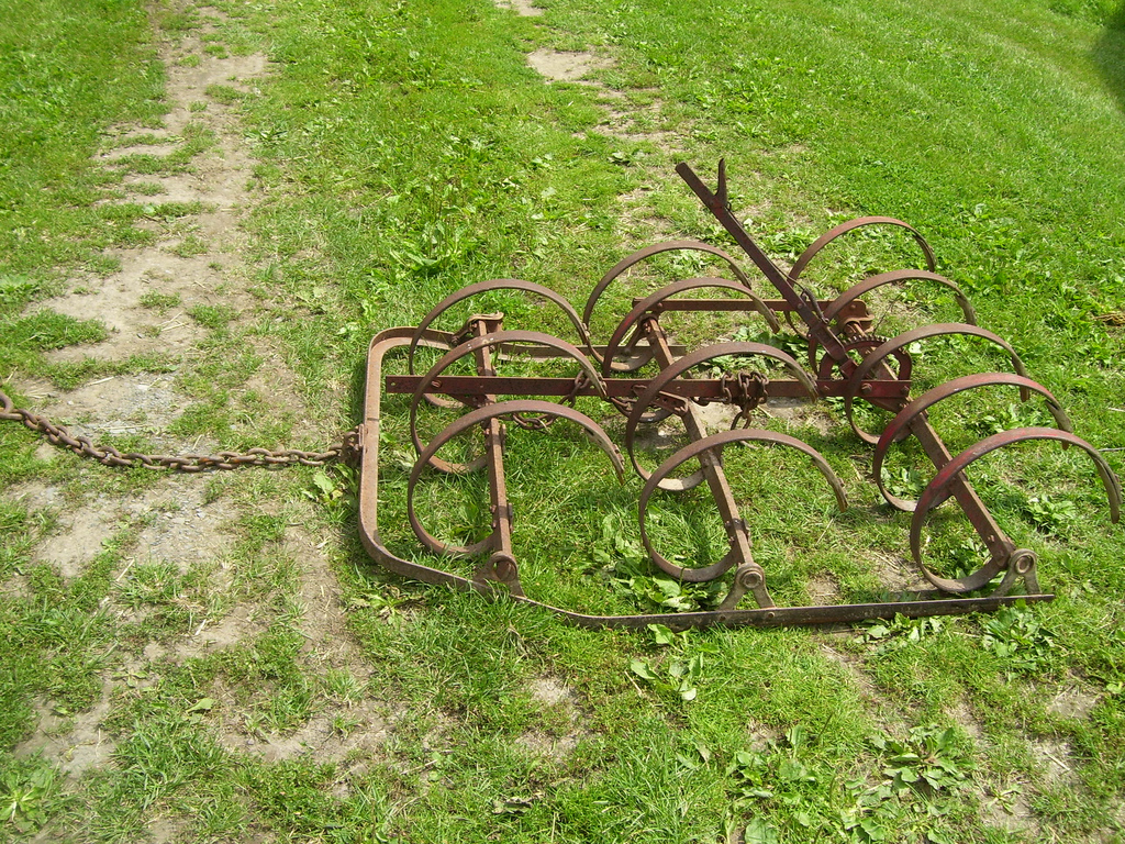 A 4-foot drag harrow